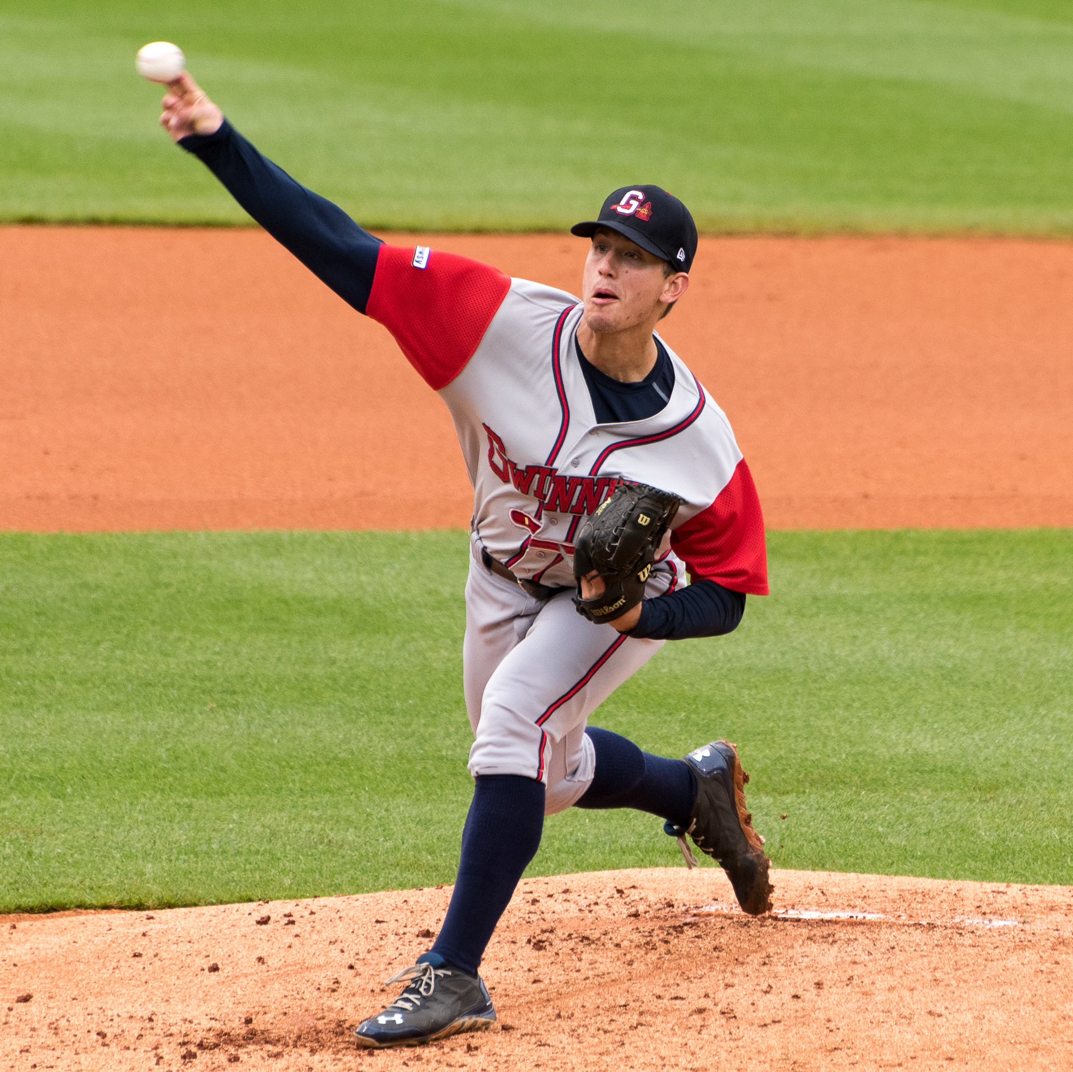 Lucas Sims pitching for the Gwinnett Braves on April 28, 2016